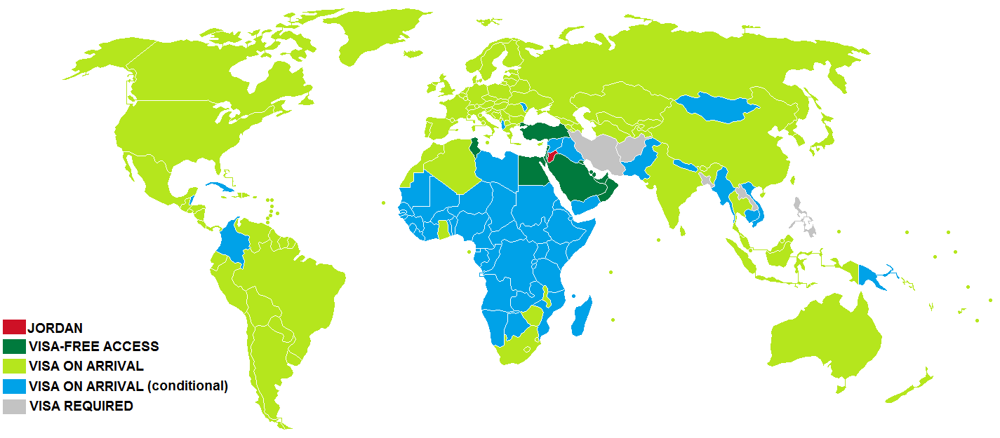 Visa policy of Jordan Jordan Visa-free Visa on arrival Visa required